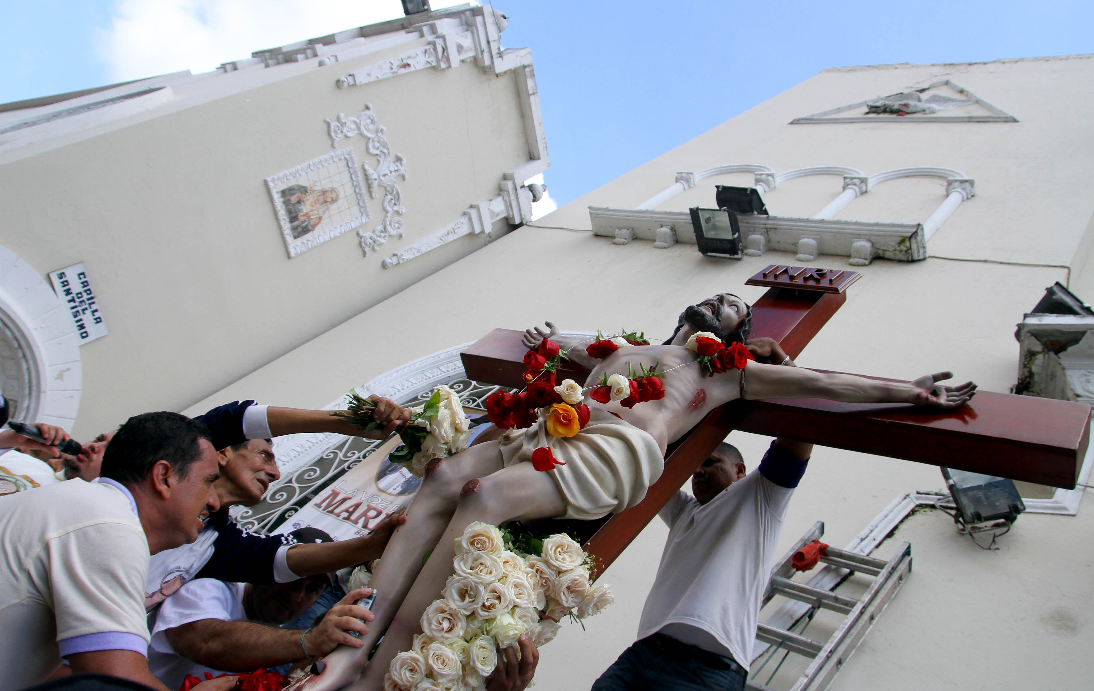 Guayaquil, viernes 03 de abril del 2015 (ANDES).-Miles de feligreses acompañaron a la imagen de Cristo en una procesión que recorre desde la iglesia del Cristo del Consuelo hasta llegar a la iglesia Espiritu Santo en el sureste de Guayaquil.Foto:César Muñoz/ANDES